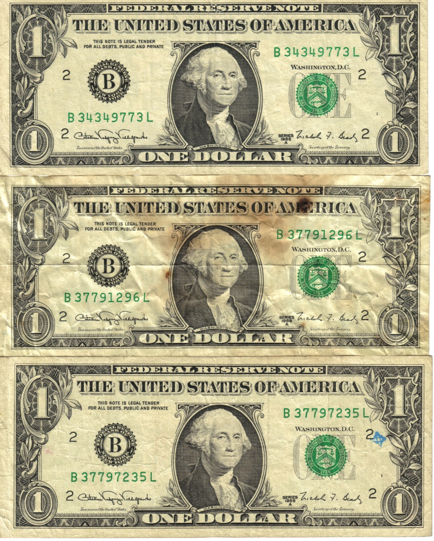 Several web notes from the Series 1988A B-L block, showing varying signs of circulation. From contributor's personal collection.